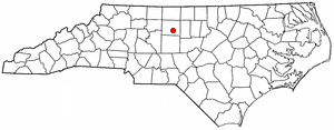 Category:North Carolina Dot Maps